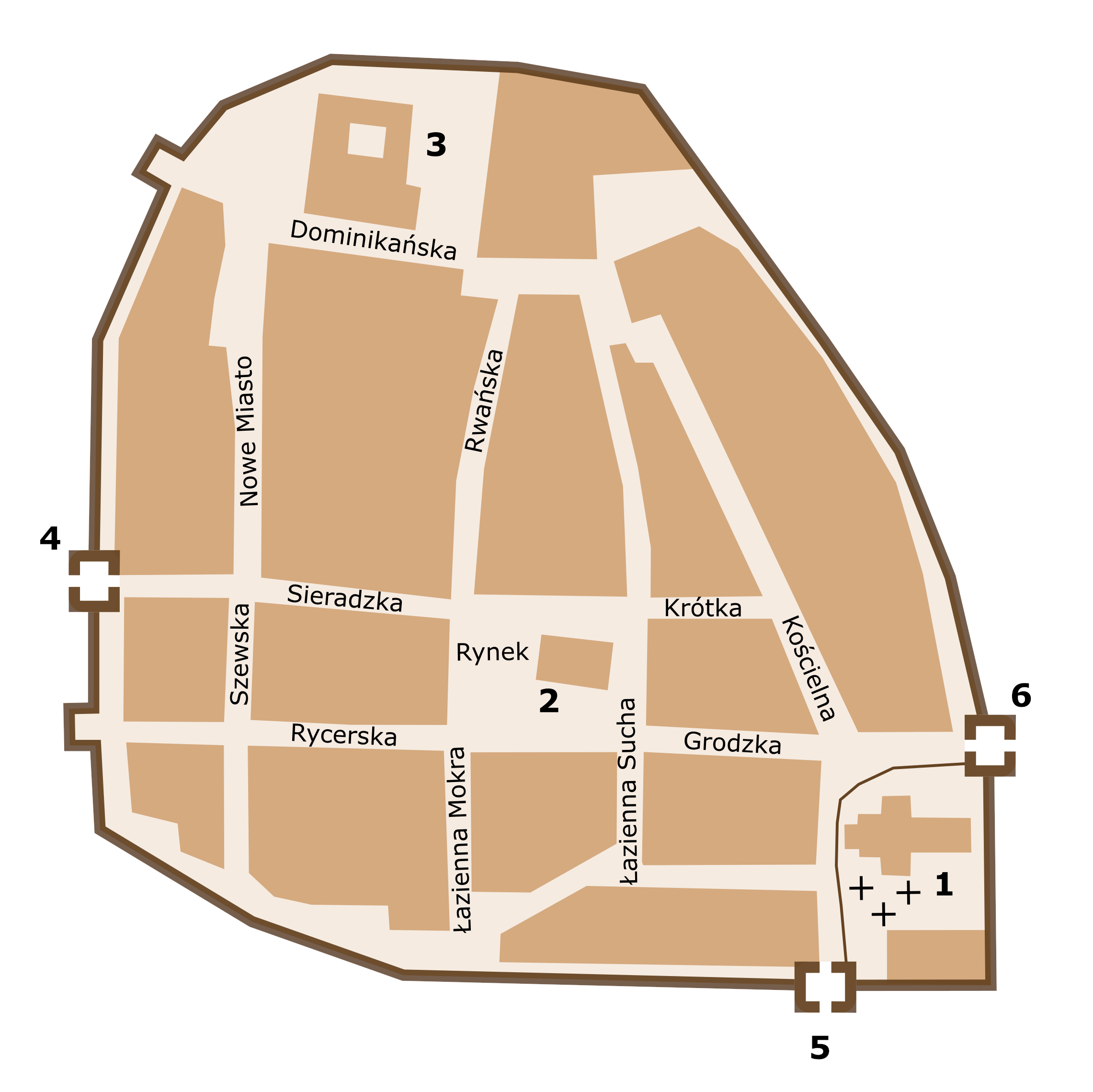 Reconstruction of map of Piotrków Trybunalski in Poland in second half of 16th century. Based on map in book: Atlas historyczny Polski. Województwo sieradzkie i łęczyckie w drugiej połowie XVI wieku. Część I Mapy Plany. Henryk Rutkowski (red.). Warszawa: Wydawnictwo Instytutu Historii PAN. page 9 1. Saint James church 2. Town hall 3. Dominican Convent and Saints Dorothy church 4. Sieradzka Gate 5. Krakowska Gate 6. Wolborska Gate